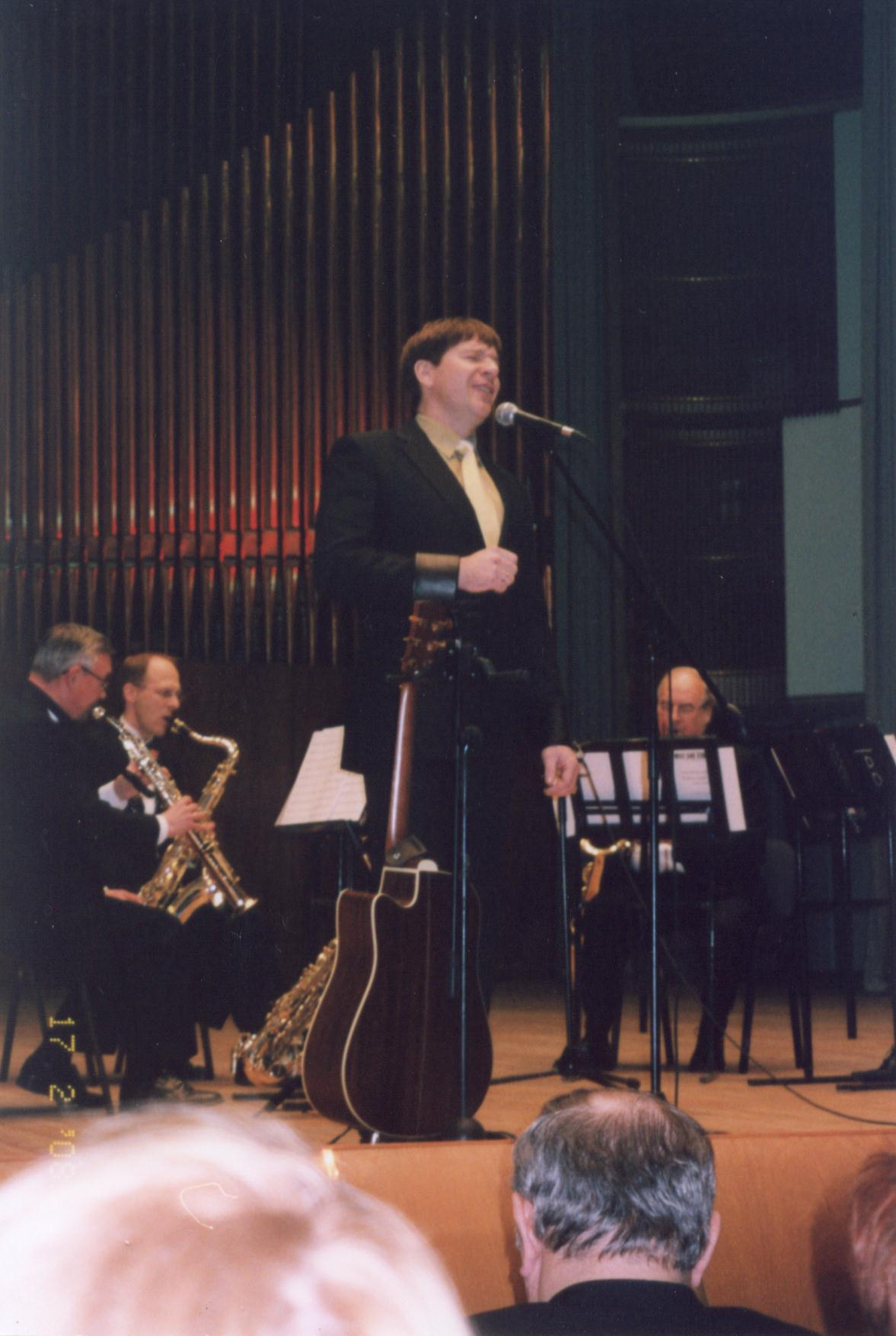 Marko Matvere in concert in Minsk